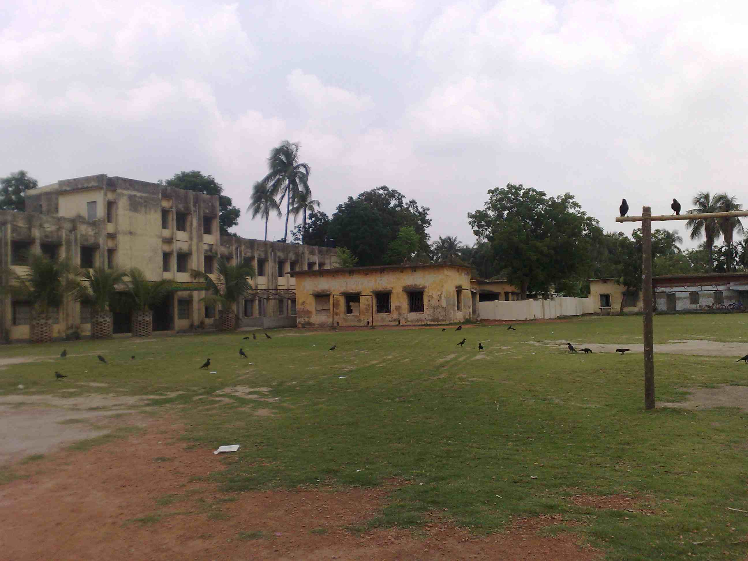 field of pabna zilla school.